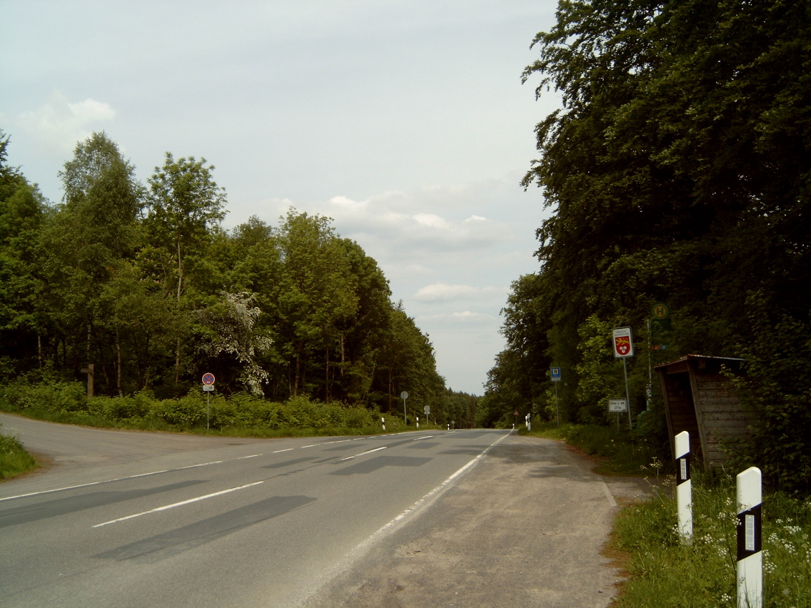 "Nienstedter Pass" (over the "Deister"), top of the pass at 277 metres above mean sea level